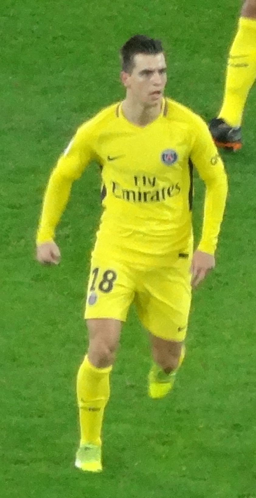 Lo Celso